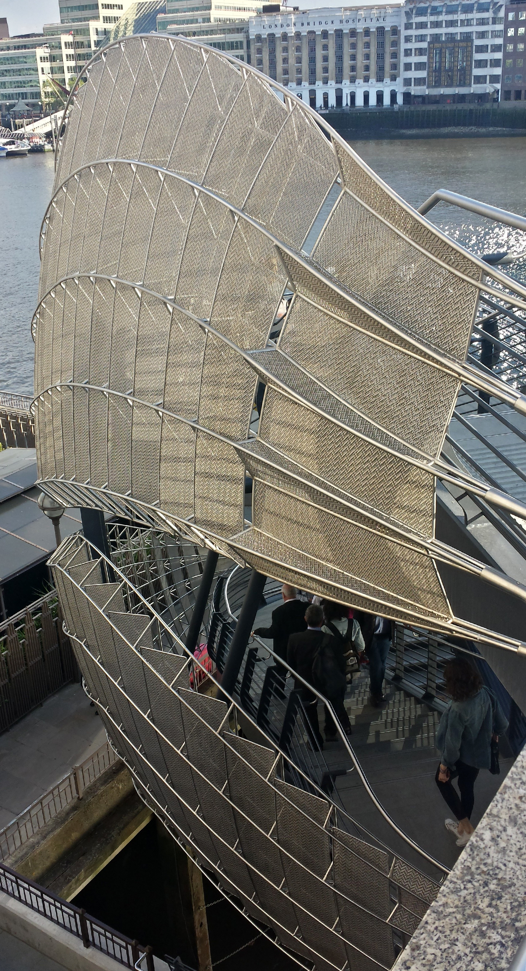 Photograph of bere:architects London Bridge Staircase, designed by Justin Bere.